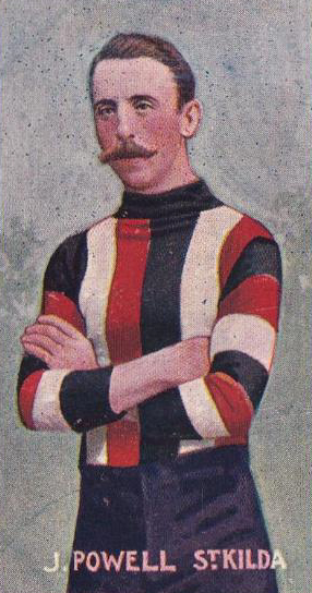 Cigarette card of Joe Powell from the Sniders & Abrahams 1906 series